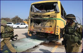 Israeli achool bus hit by a rocket fired from Gaza by hamas. An Israeli teen was killed in this attack.